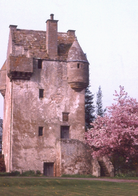 Coxton Tower. This little fortified house was built in the 17th century, but is no longer habitable.